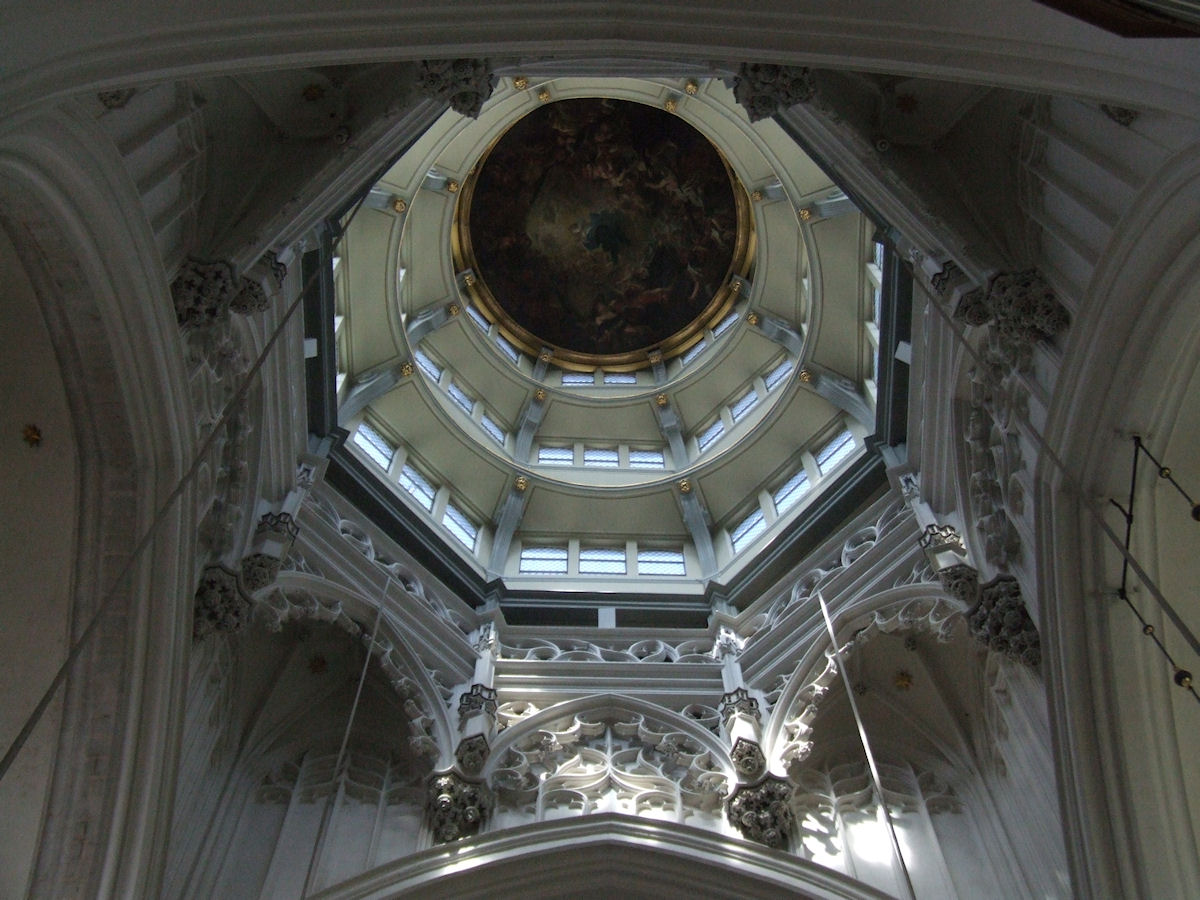 Cathedral of Our Lady, Antwerp, Belgium